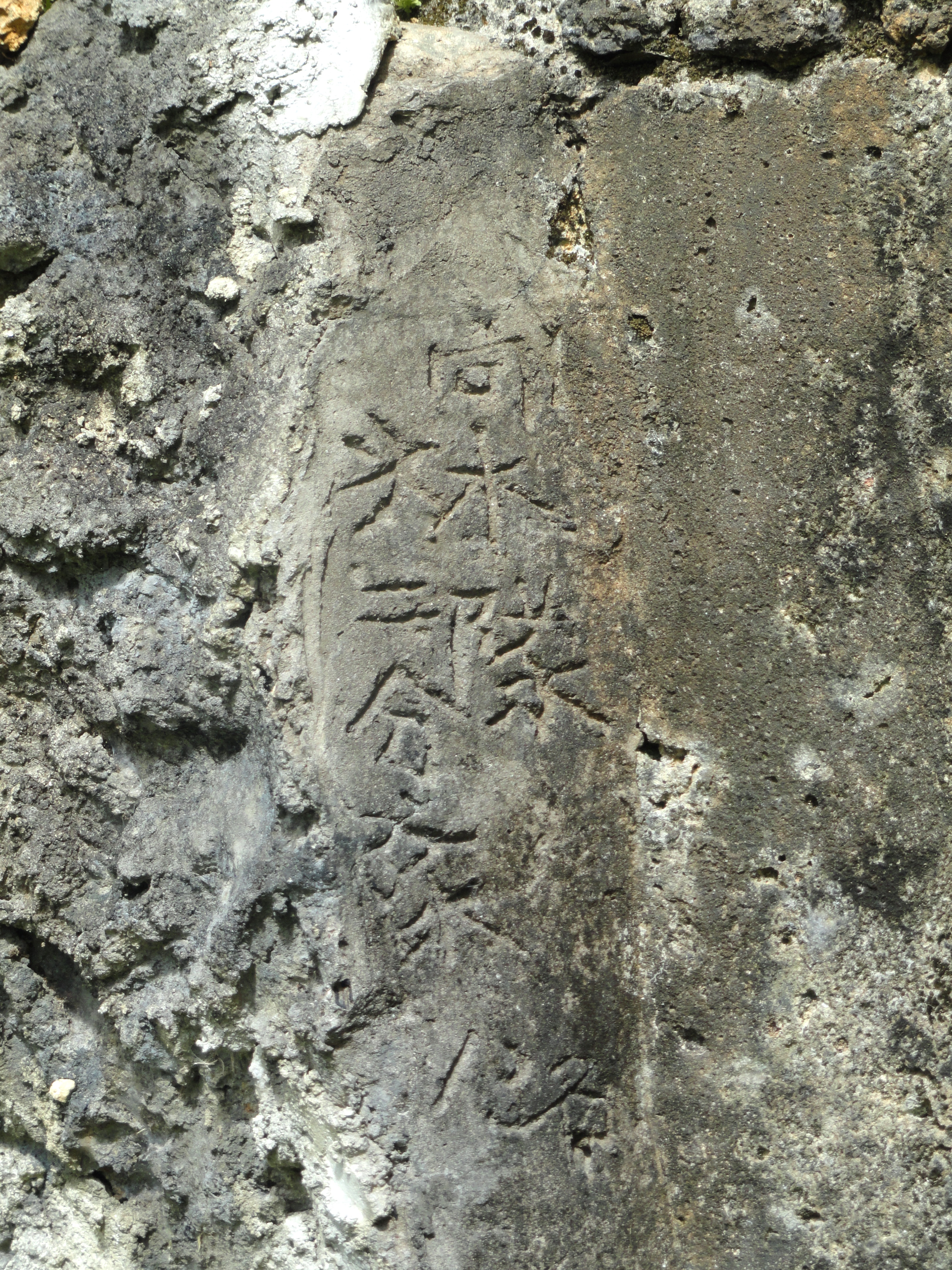 War in the Pacific National Historical Park (Ga'an Point), Agat, Guam, USA.